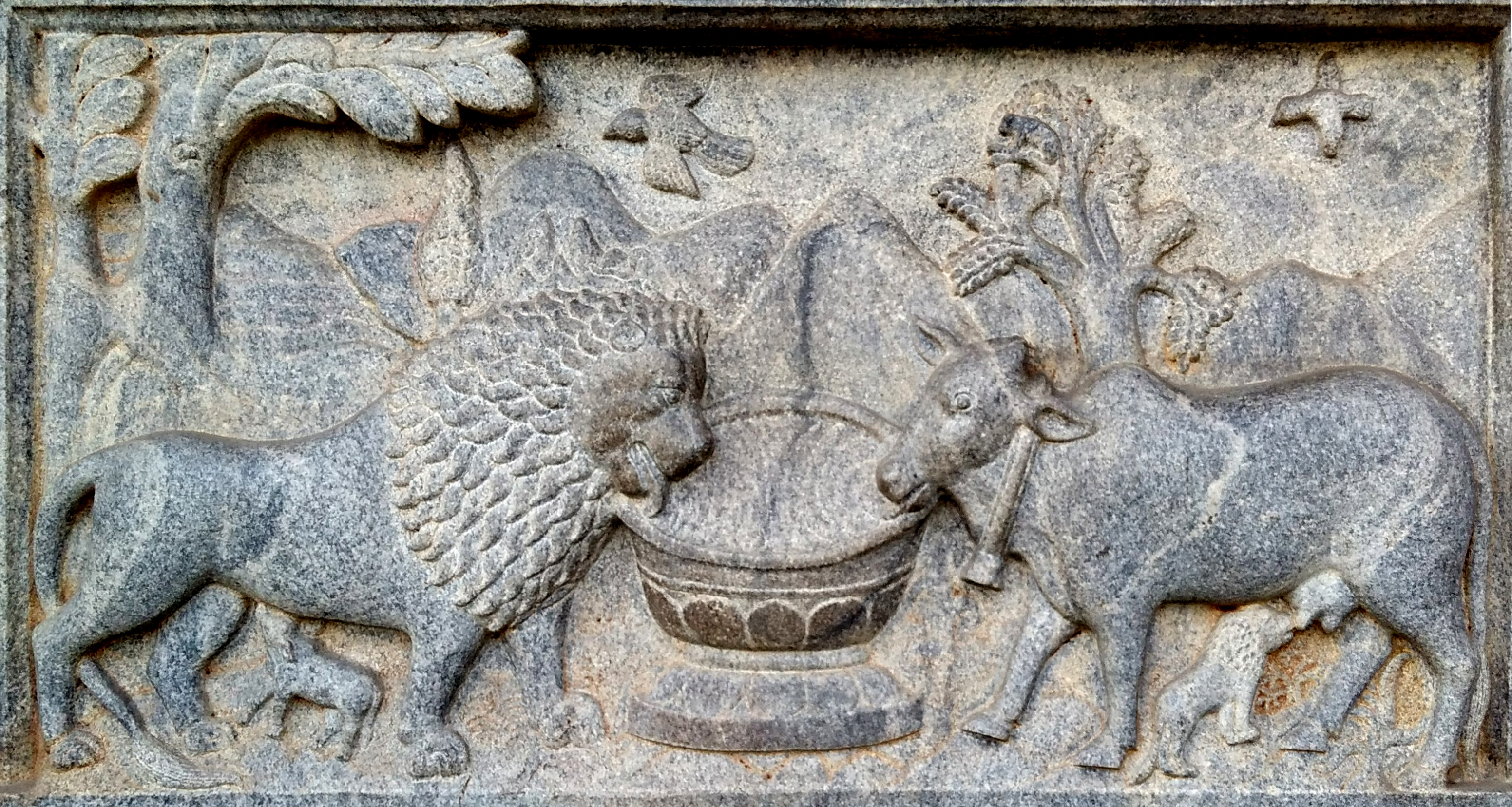 Sculpture depicting Ahinsa (non-injury) Ahinsa sthal, Mehrauli, Delhi